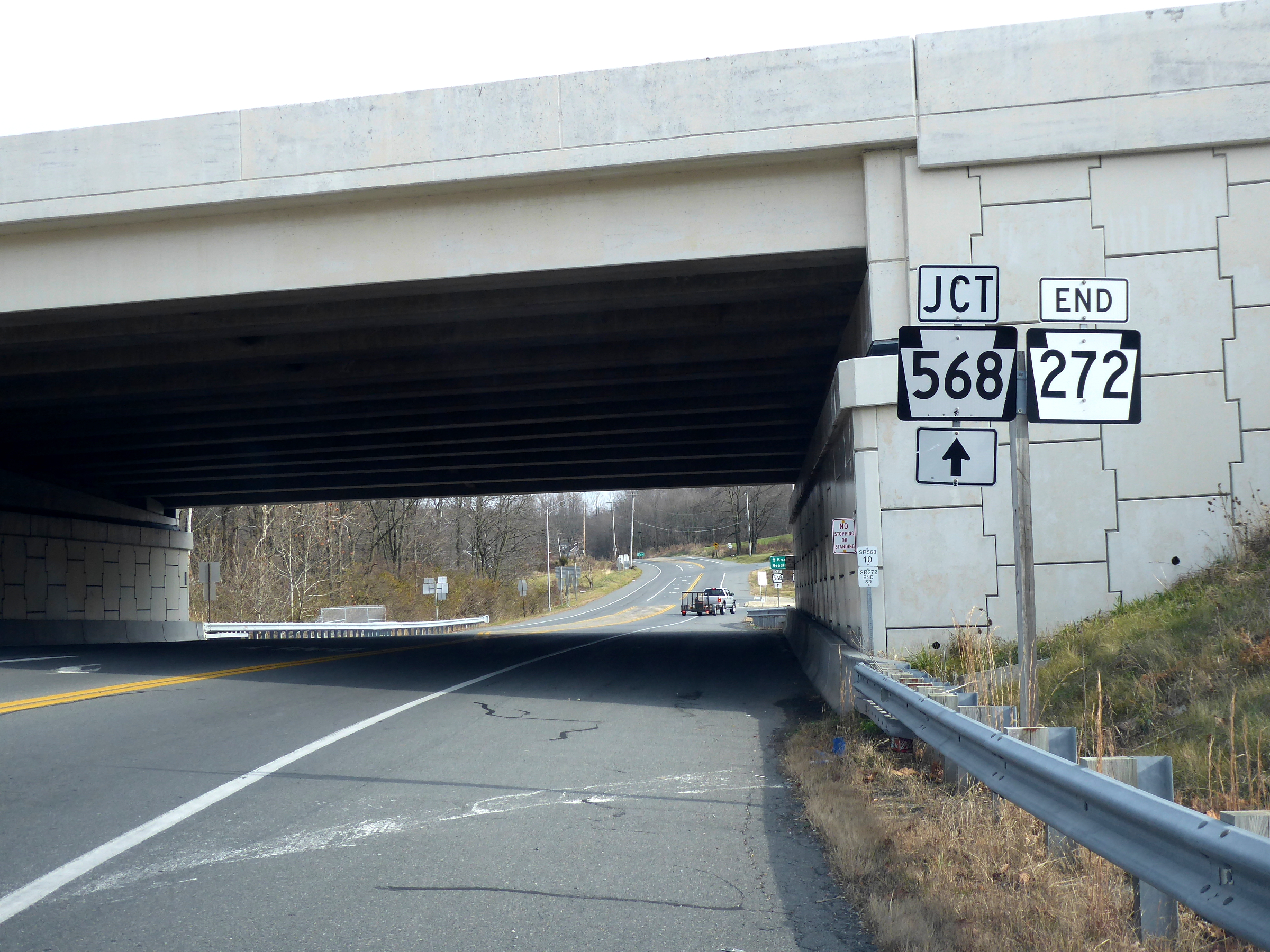 Pennsylvania Route 272 northern terminus at U.S. Route 222 and Pennsylvania Route 568 in Brecknock Township, Pennsylvania.